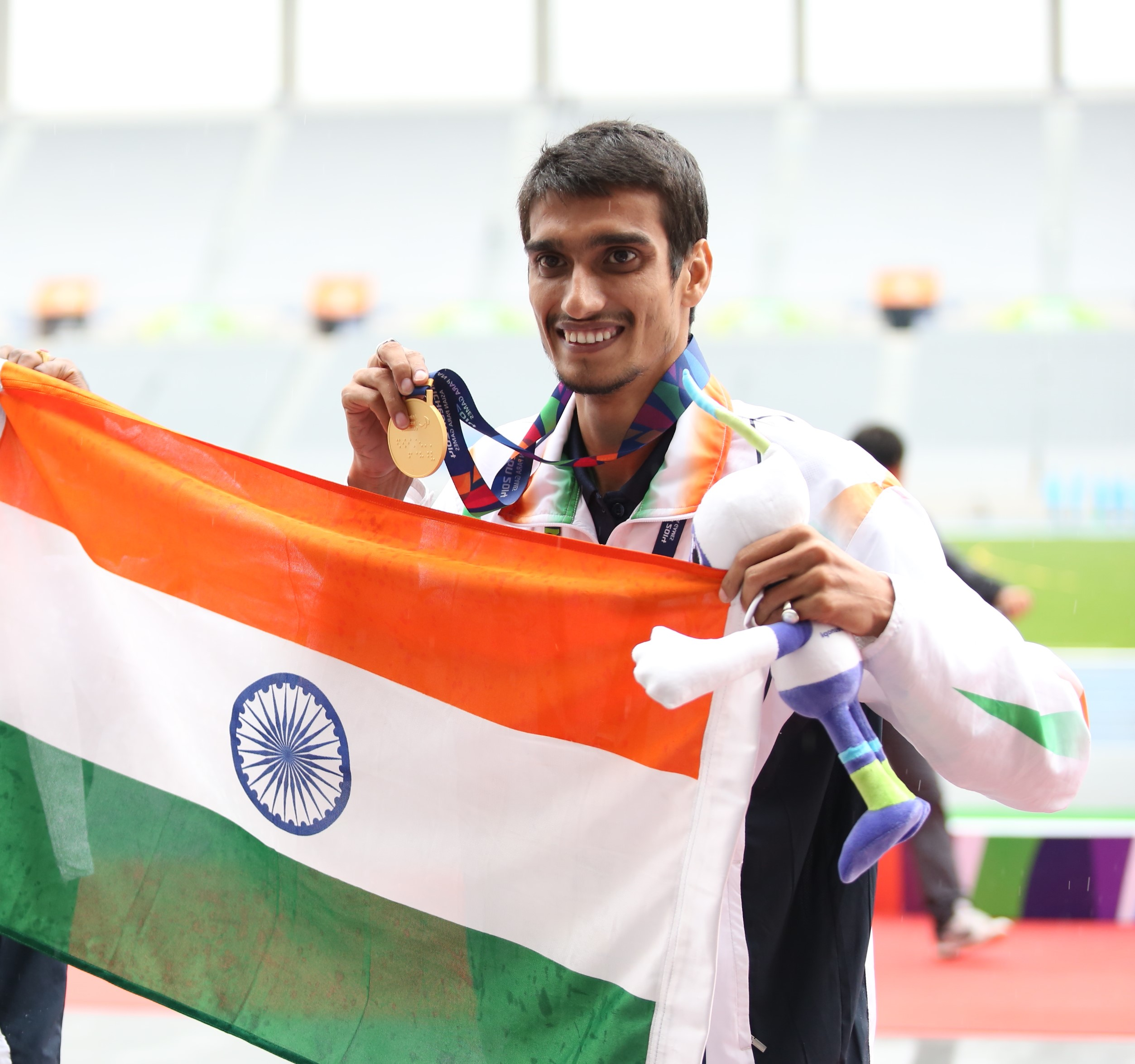 gold medal winner